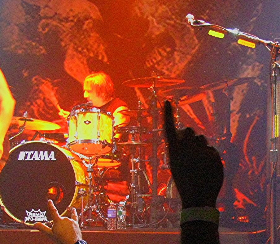 Troy Luccketta with Tesla at the Chance in Poughkeepsie, NY. April 27,2007.